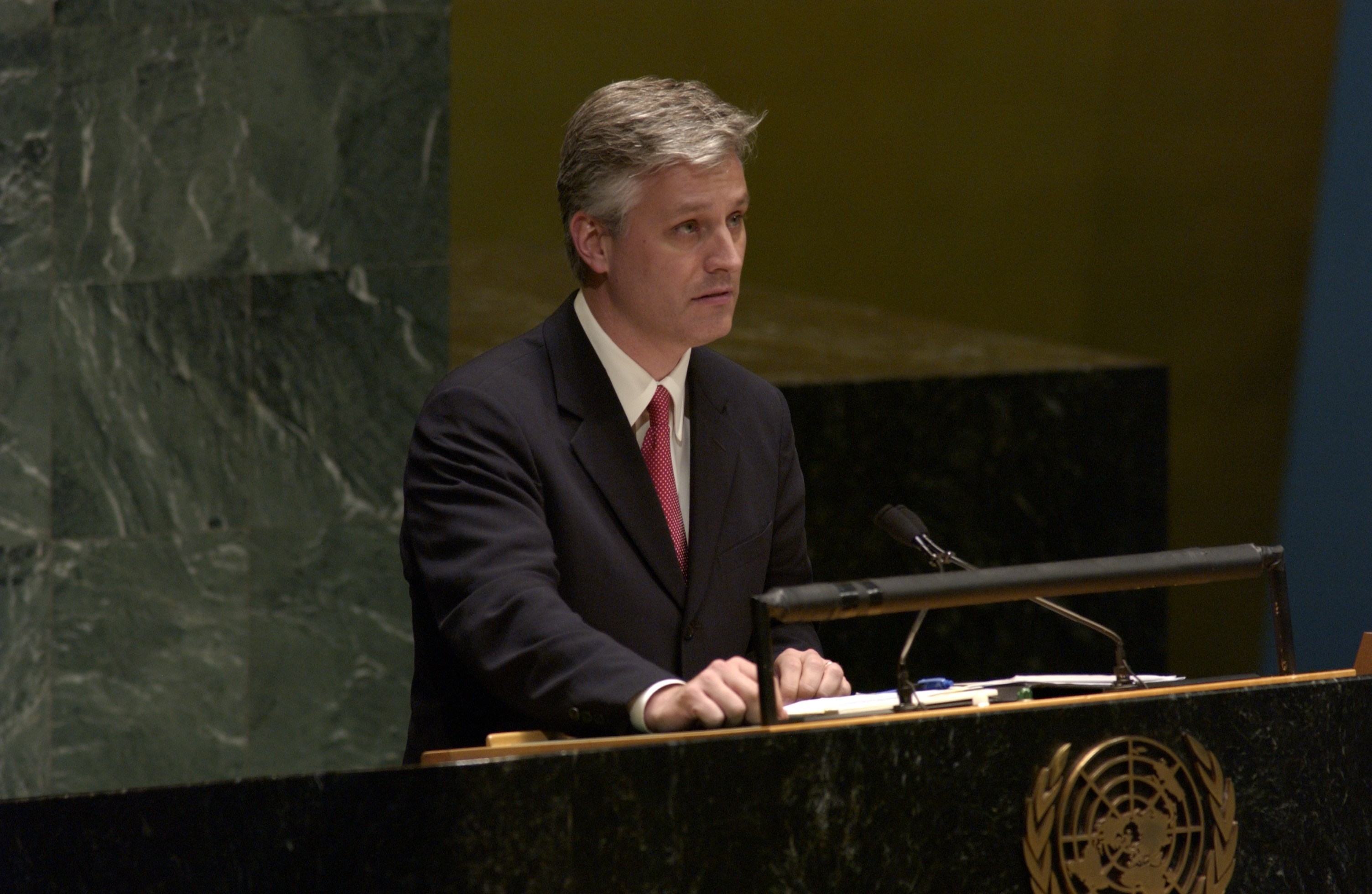 Robert C. O'Brien (attorney) addressing the UN General Assembly